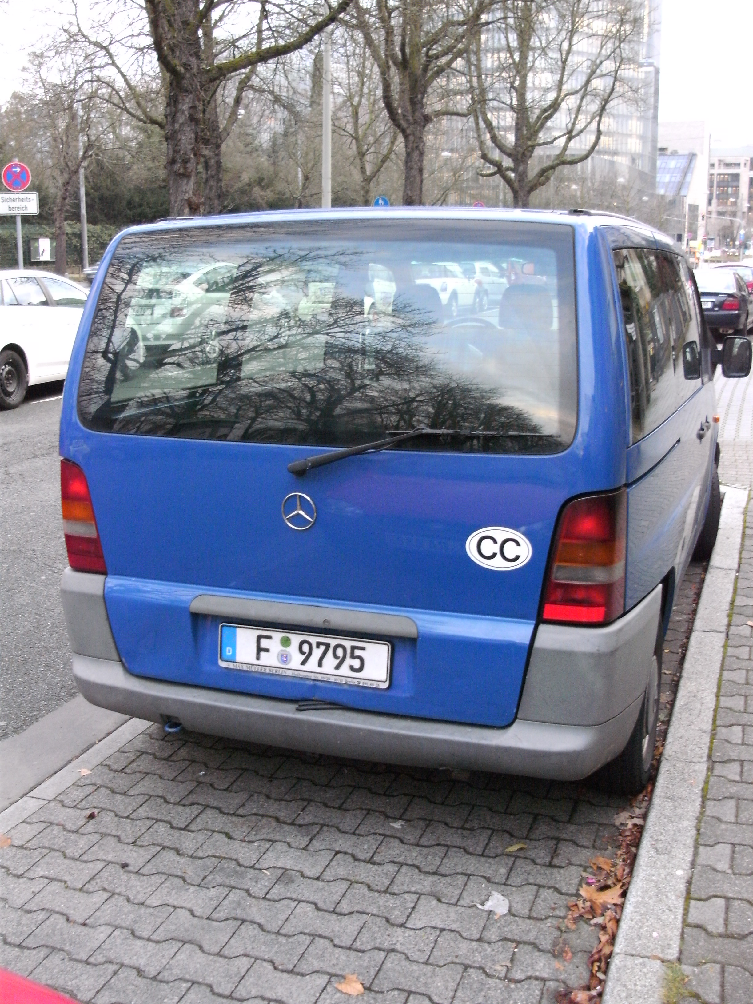 Consulate vehicle in Frankfurt/Main, Germany